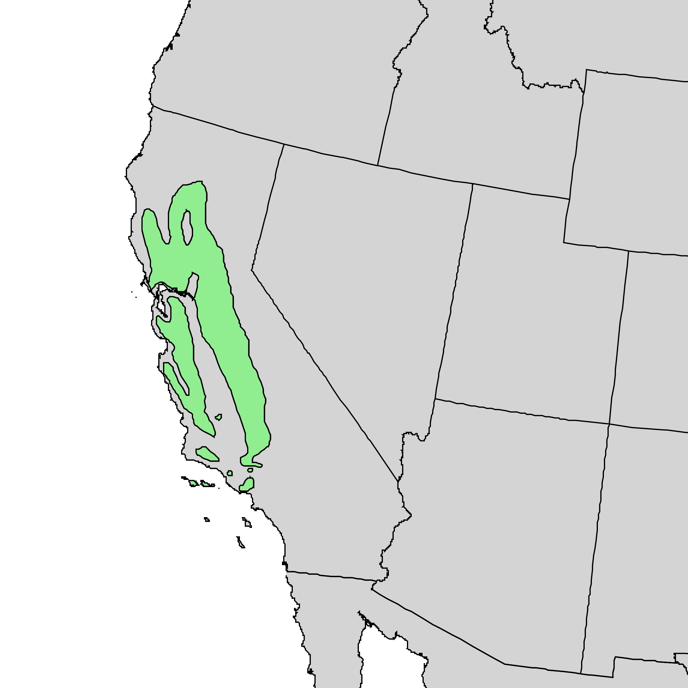 Natural distribution map for Quercus lobata